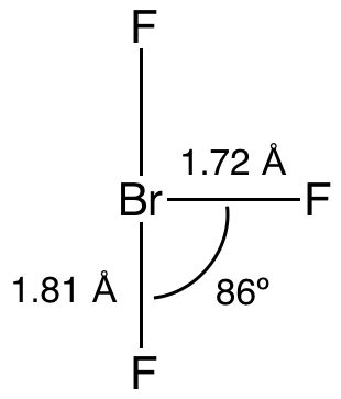 structure of BrF3 with bond distances and angles